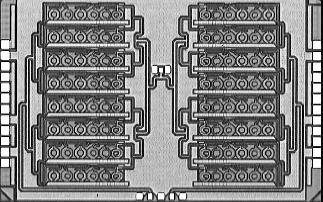 Two teams of DARPA performers have achieved world record power output levels using silicon-based technologies for millimeter-wave power amplifiers. RF power amplifiers are used in communications and sensor systems to boost power levels for reliable transmission of signals over the distance required by the given application. These breakthroughs were achieved under the Efficient Linearized All-Silicon Transmitter ICs (ELASTx) program. Further integration efforts may unlock applications in low-cost satellite communications and millimeter-wave sensing. MIT and Carnegie Mellon University researchers,demonstrated a 0.13 micrometer silicon-germanium (SiGe) BiCMOS power amplifier employing multistage power amplifier cells and efficient 16-way on-chip power-combining. This amplifier has achieved power output of 0.7 W at 42 gigahertz, a 3.5 times increase in output power compared to the next best reported silicon-based millimeter-wave power amplifier; this result was reported at the 2013 International Solid-State Circuits Conference (ISSCC). for more details.